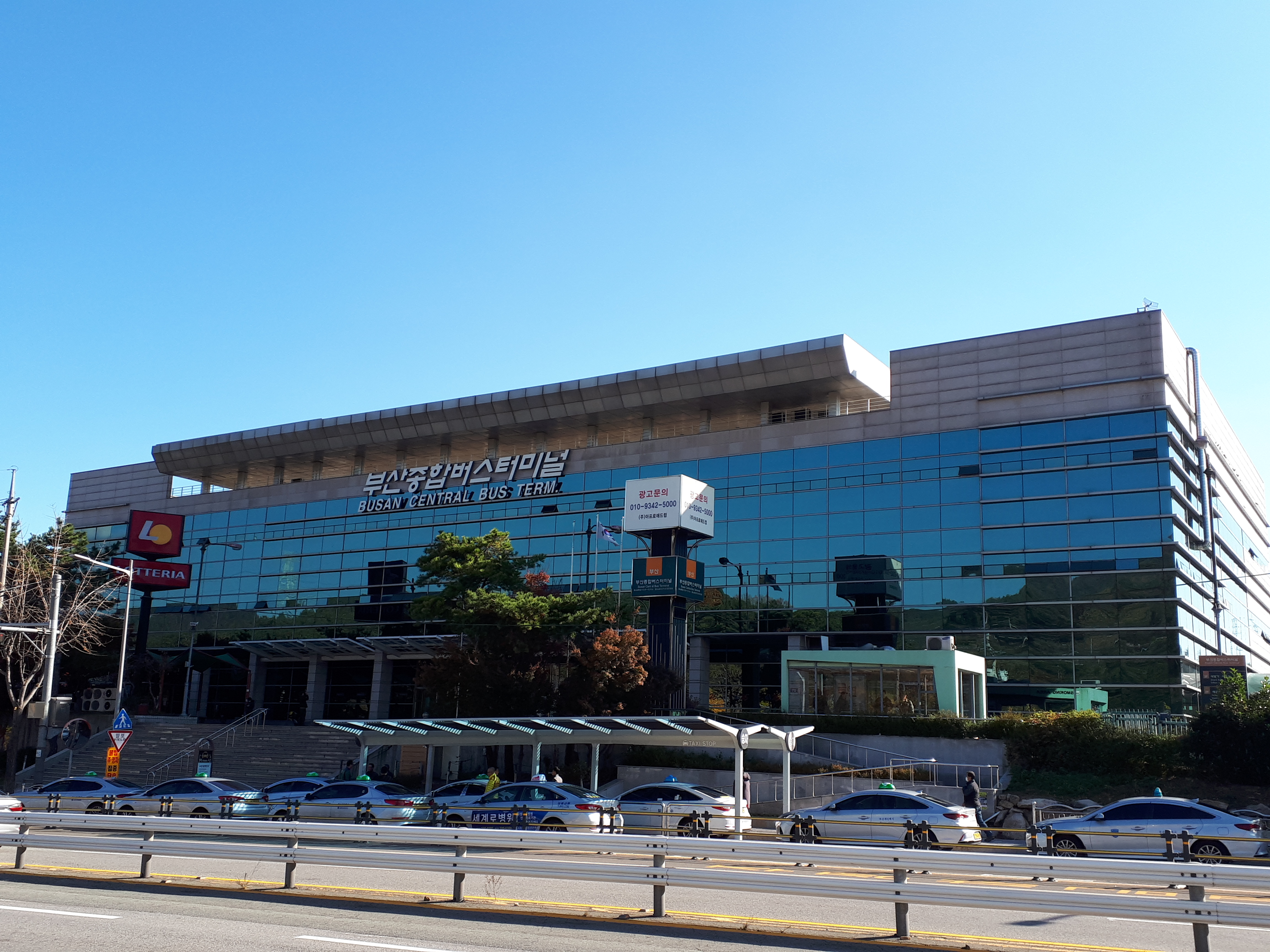 The front of Busan Central Bus Terminal